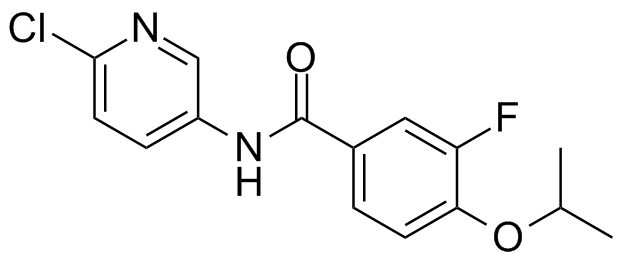 The compound is a potassium-channel opener and was synthesized by George Amato et al. in 2011. In the article, the compound is compound 40. The file was made with ChemBioDraw Ultra 12. As a reference, the digital object identifier is